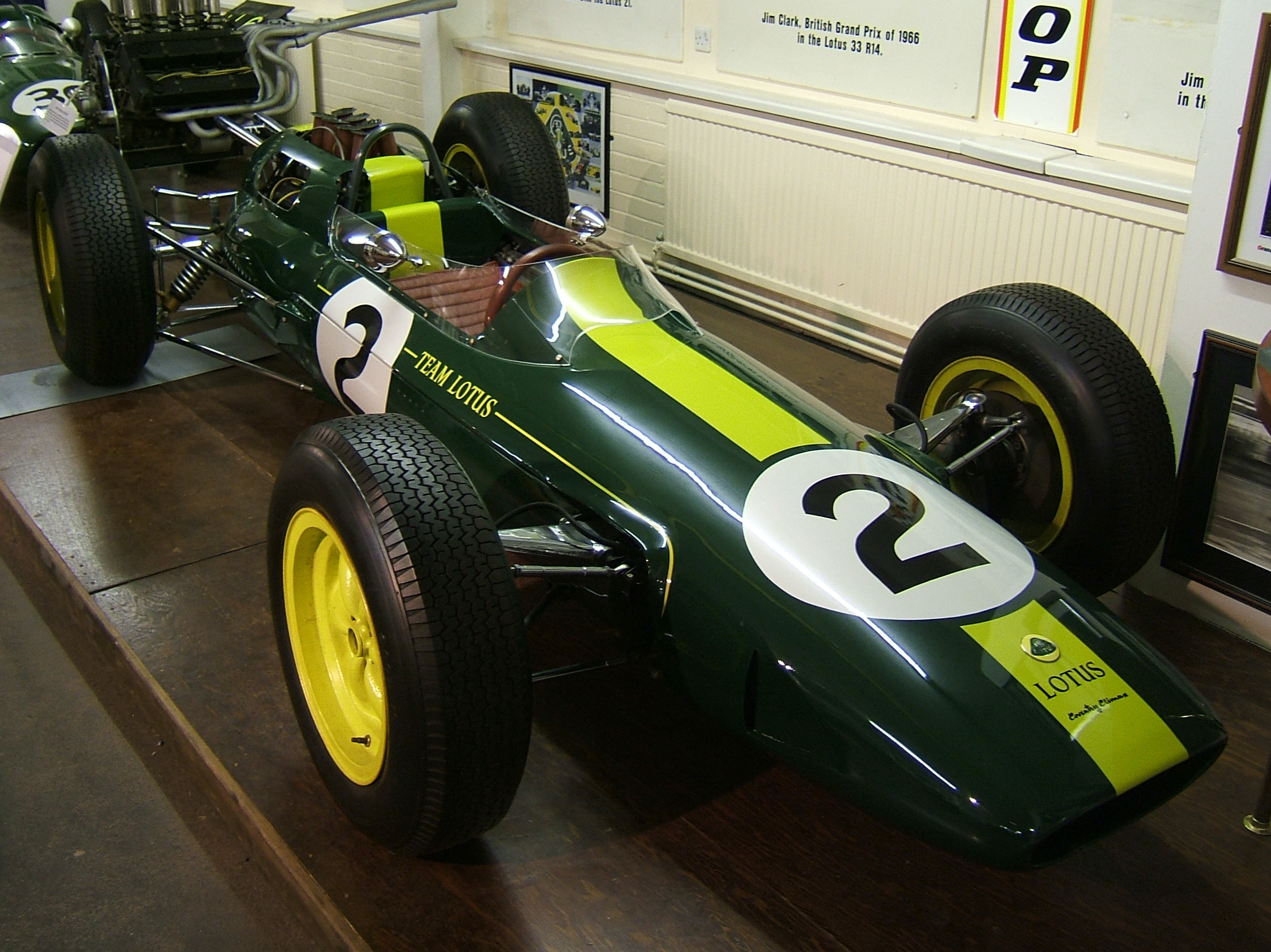 Jim Clark's Formula One World Championship-winning Lotus 25 car. In the Doningon Grand Prix Collection museum, Leics., UK.